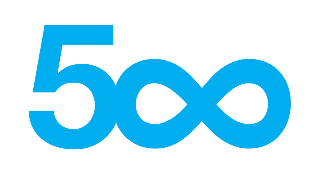 500px logo.